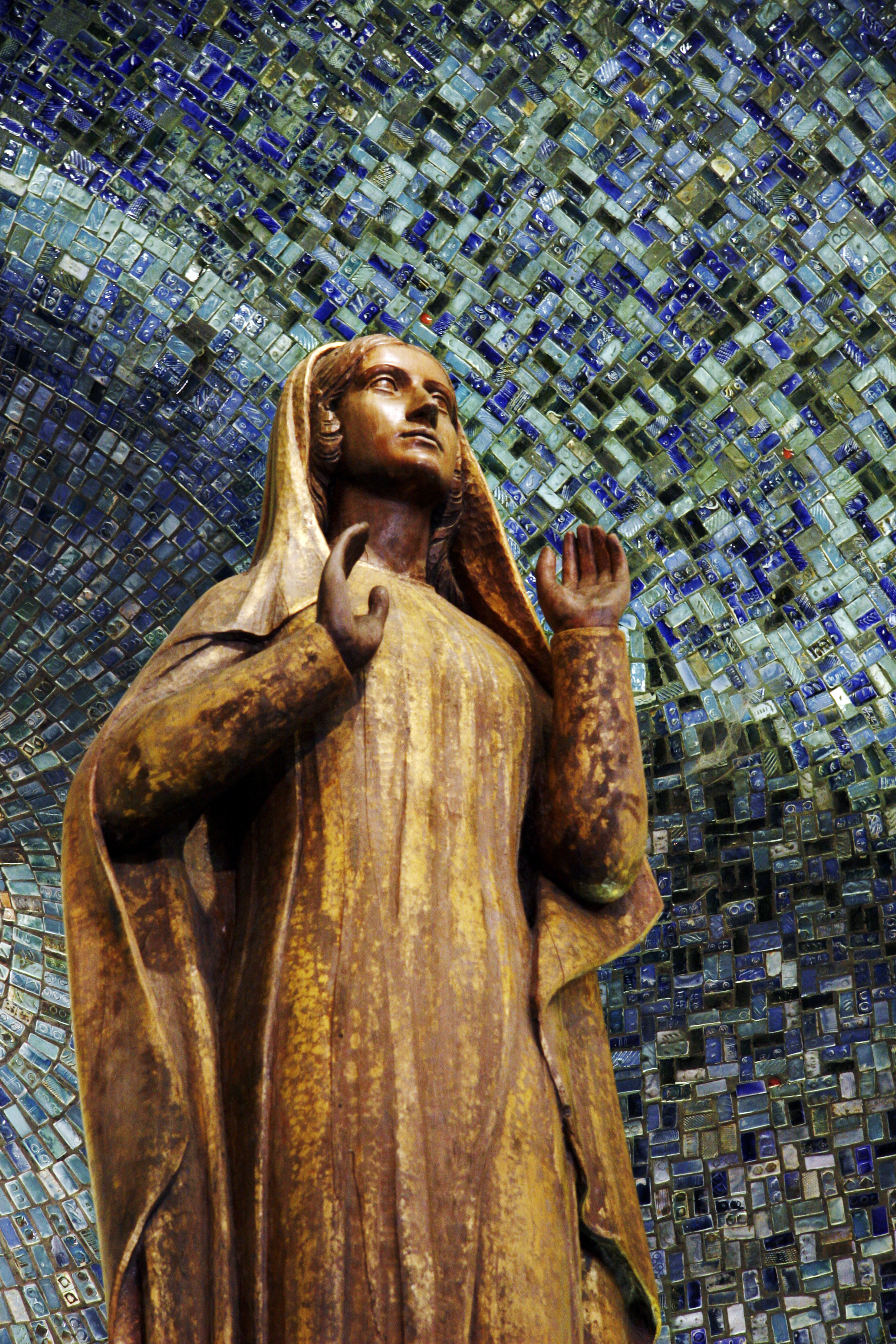 Virgin of the Glorious Assumption Statue completed in agba wood and thumb gilded in gold leaf by Michael Clark. This statue can be seen on the Main Shrine at The Friars.